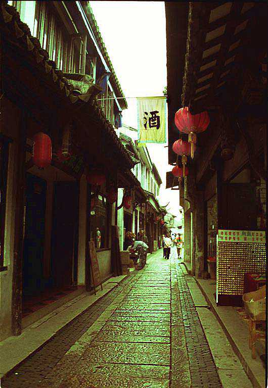 A street scene of Luzhi 人看旗出酒市